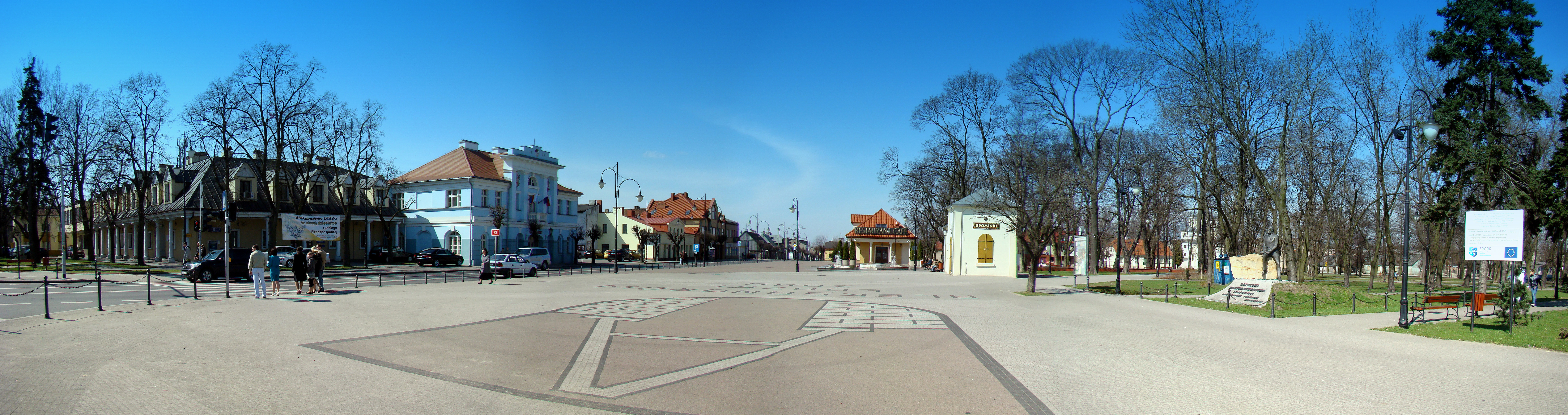 Kosciuszki Square in Aleksandrow Lodzki (Zgierz County, Lodz Voivodeship), Poland